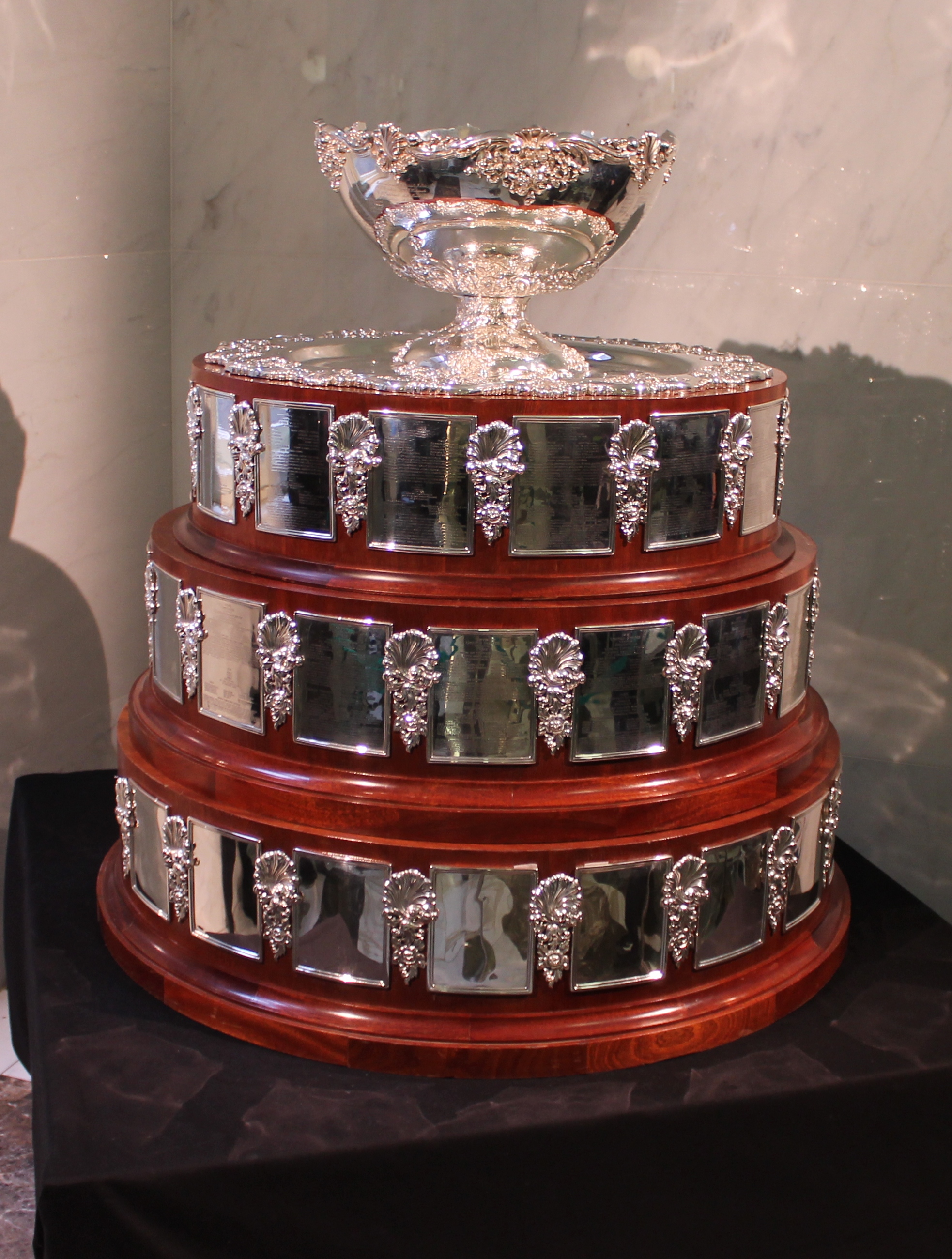 Davis Cup trophy exposed in the Český rozhlas headquarters, Prague-Vinohrady